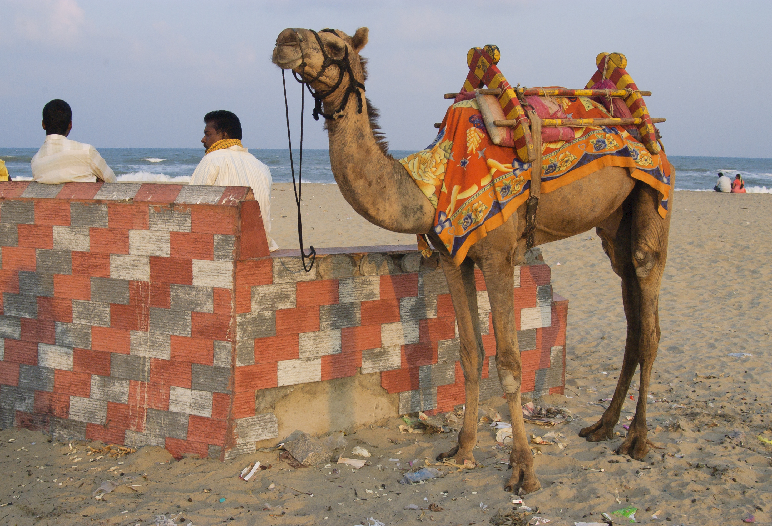 A camel on the beach in Puducherry, Tamil Nadu, India